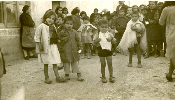 Caption: Children leaving a canteen in Archena with soap given every two weeks. Citation: Levi C. Hartzler Photograph Collection. Spanish Relief, 1937-1939. HM4-372SC Folder 3. Mennonite Church USA Archives - Goshen. Goshen, Indiana.